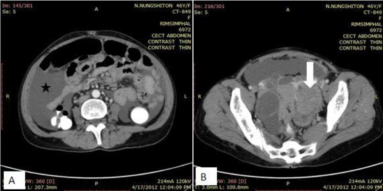 CT of peritoneal carcinomatosis with ascites and ovarian mass. For context, see Peritoneal carcinomatosis.